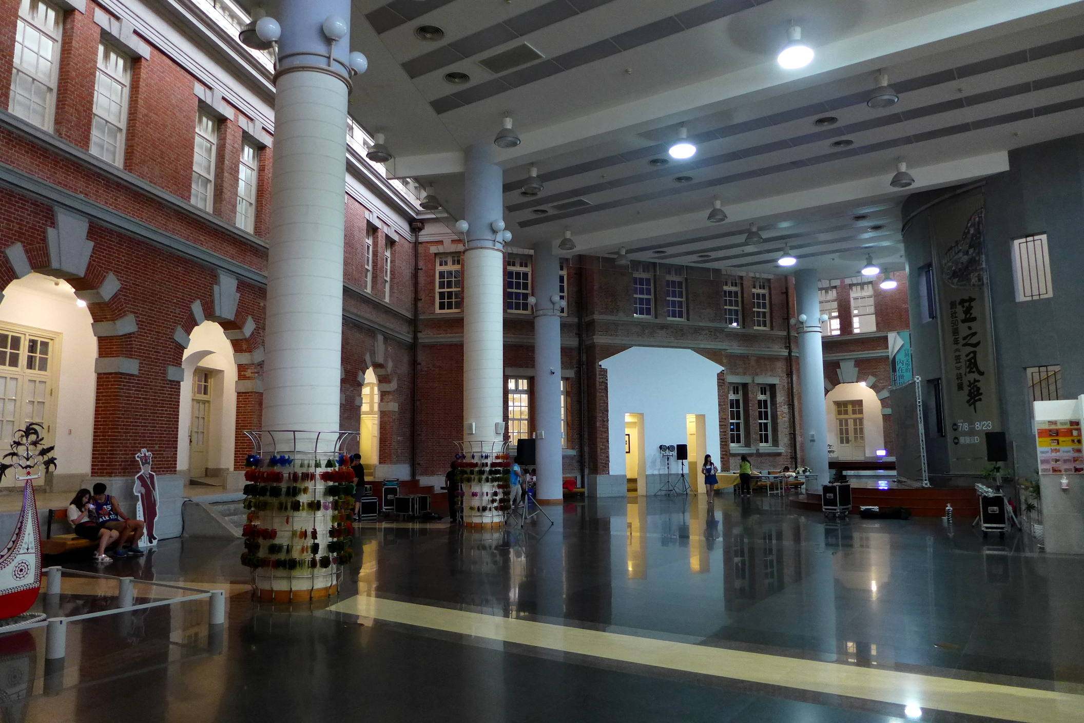 National Museum of Taiwan Literature Exhibition Hall